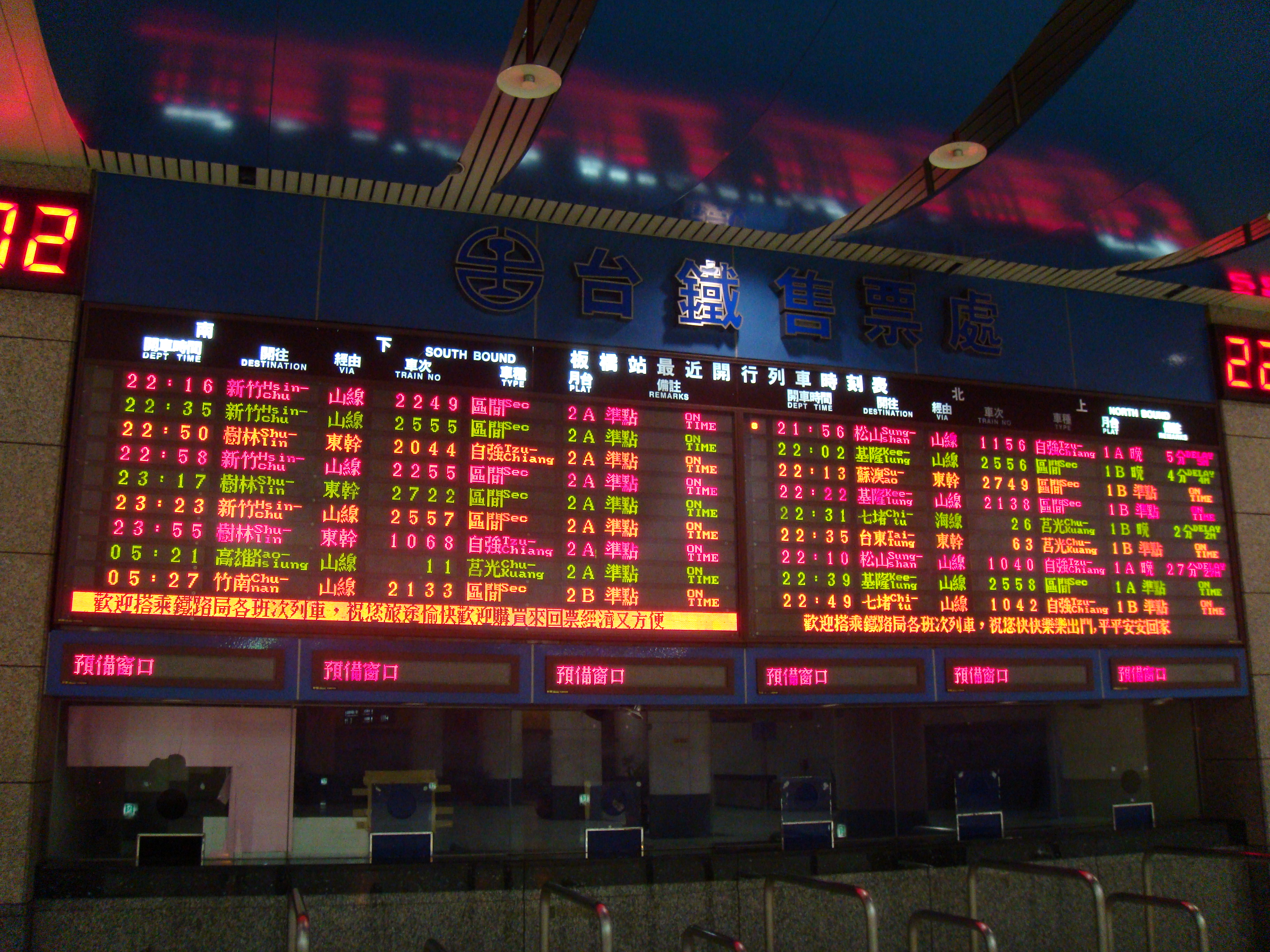 TRA Ticketing Counters and Information Board, Banciao Station, Taiwan.